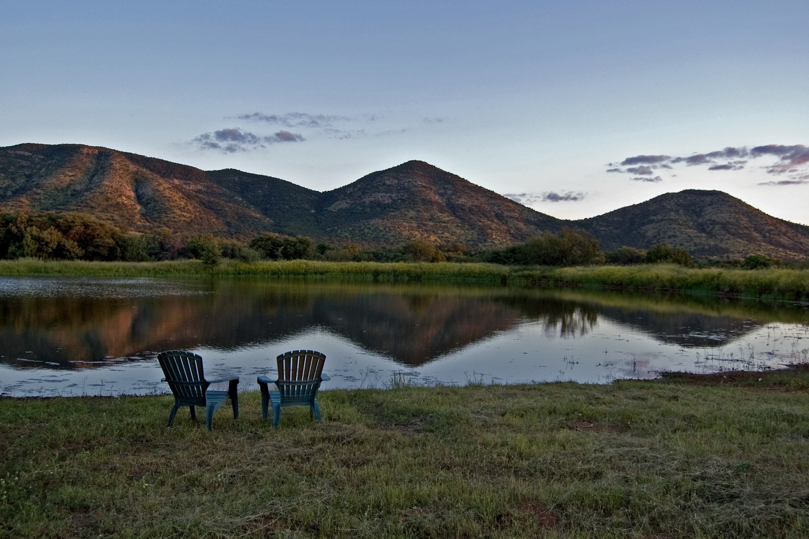 "Sunglow Ranch. Cochise County, Arizona. Chiricahua Mountains."